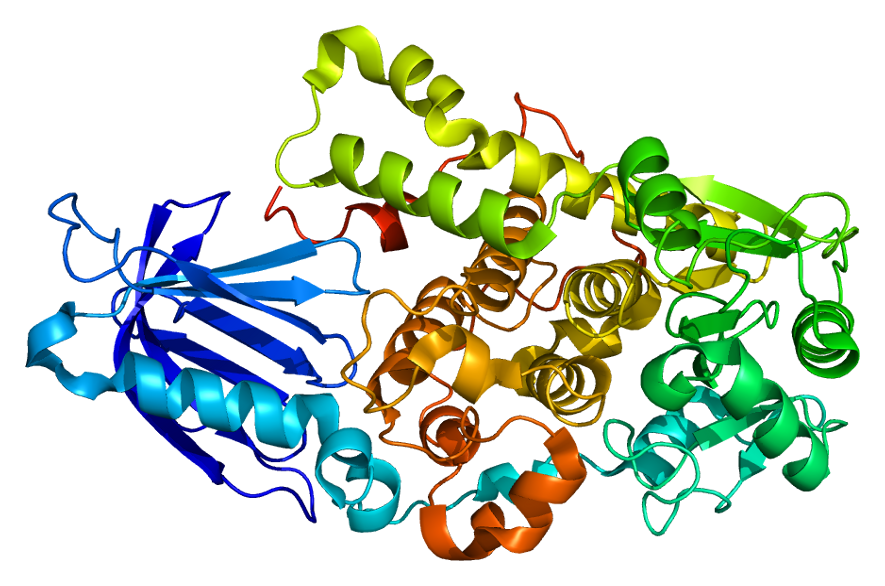 Structure of the MTMR2 protein. Based on PyMOL rendering of PDB 1lw3.